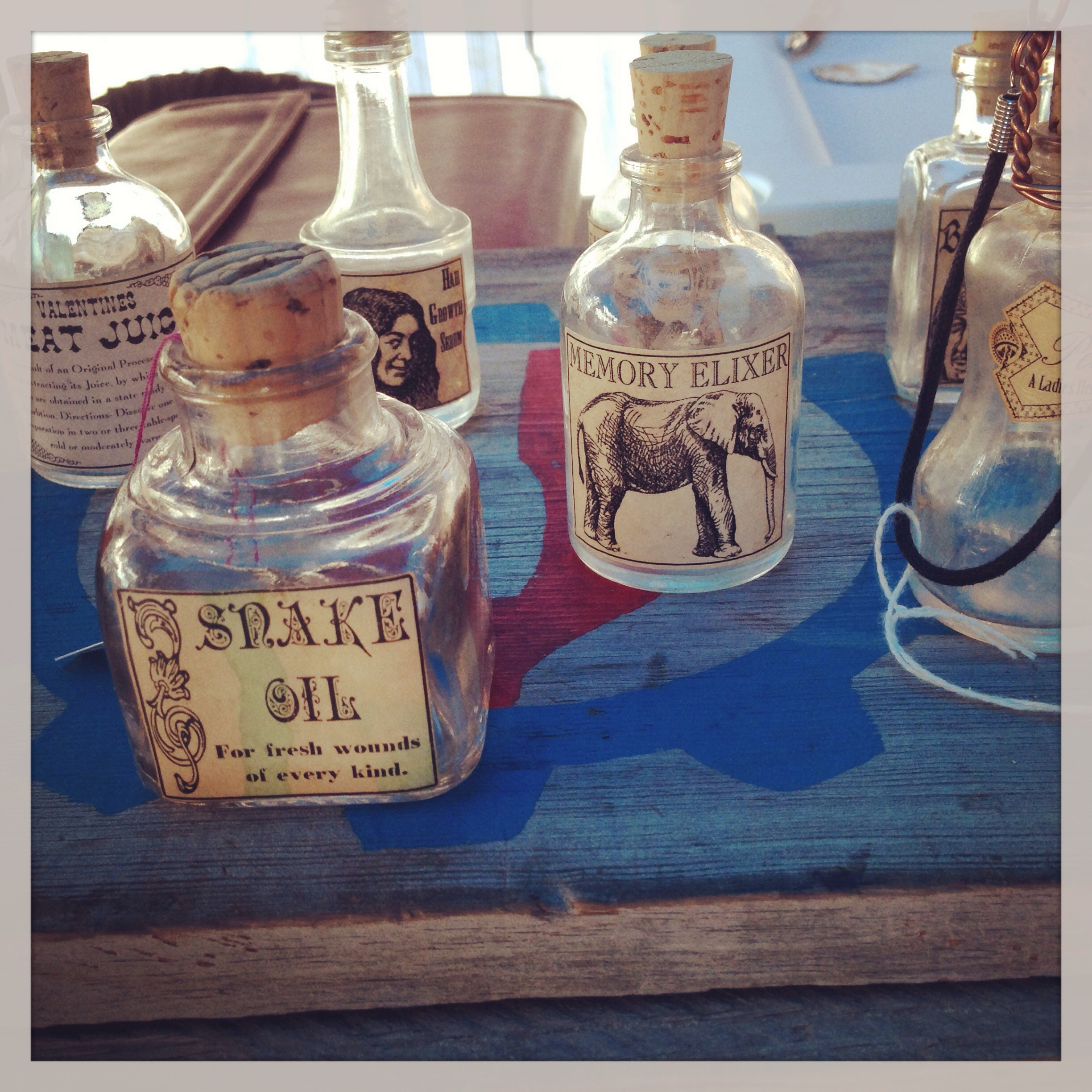 Snake oil and memory elixer Snake oil and memory elixer